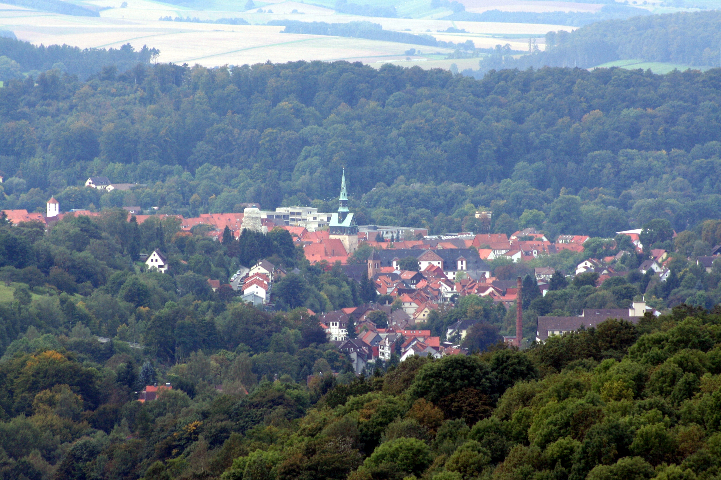 viewpoint Körnigs Eck, "witch trail Harz", Osterode am Harz, Germany